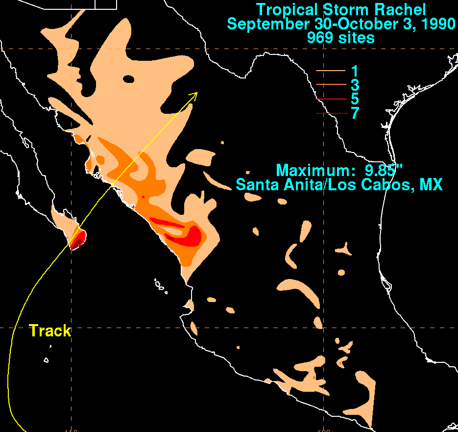 Storm total rainfall map of Tropical Storm Rachel during September and October 1990.